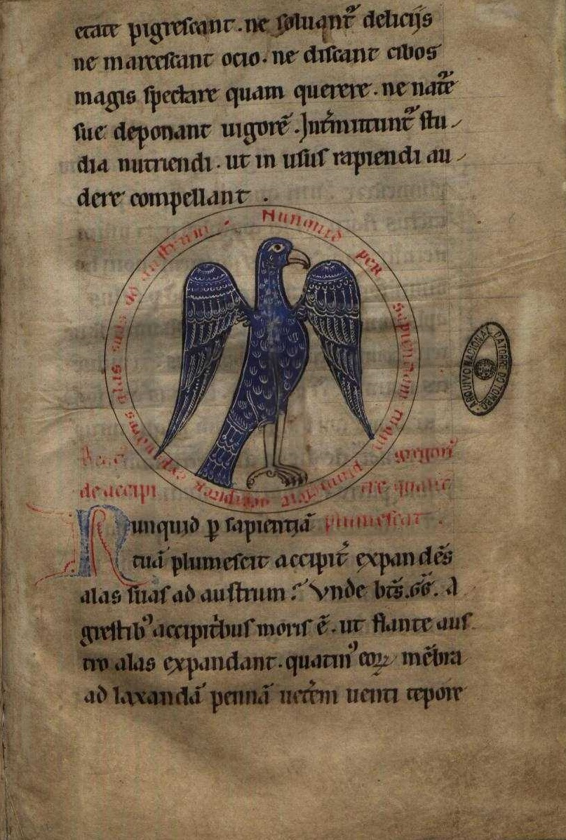 Livro das Aves